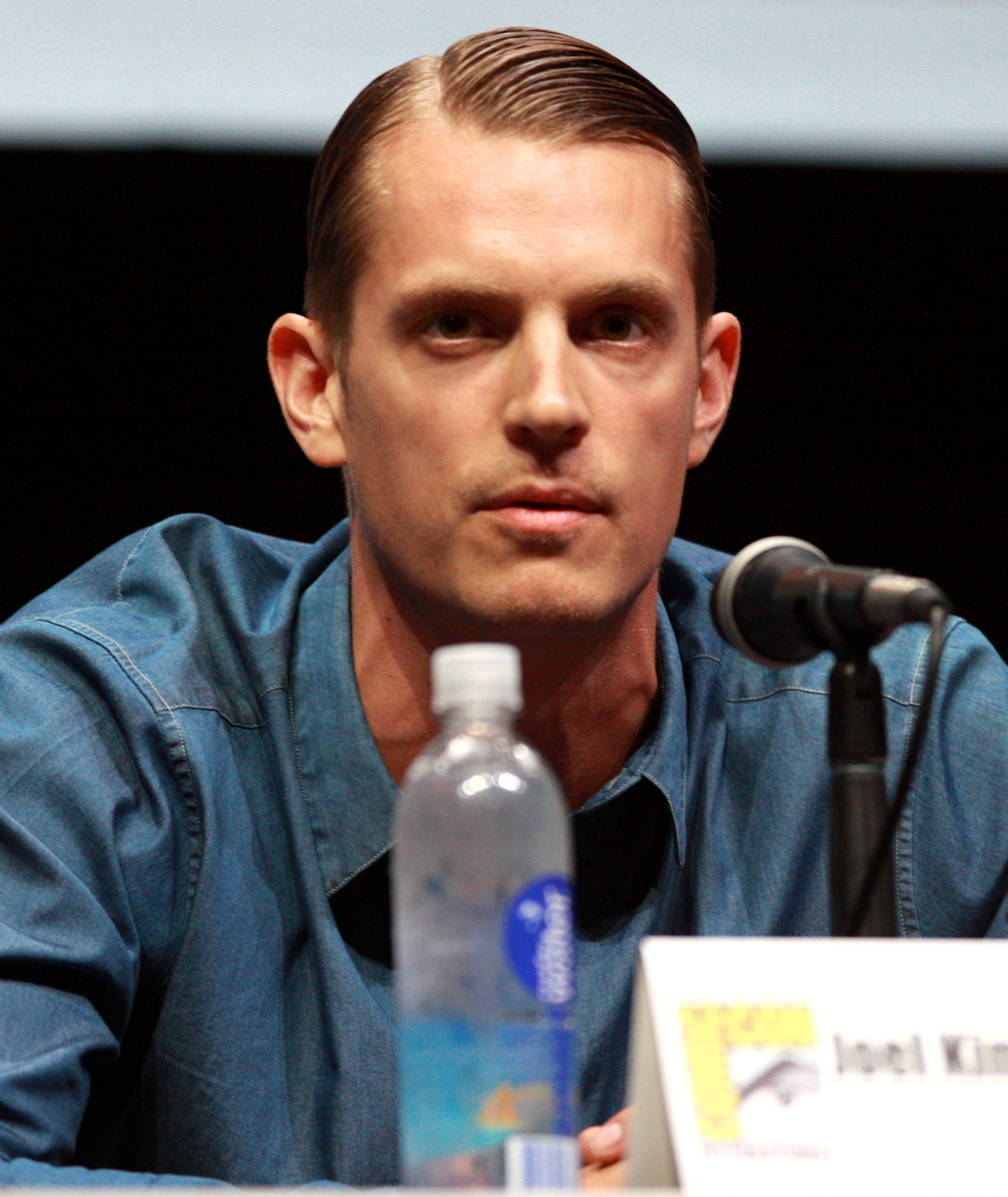 Joel Kinnaman at the 2013 San Diego Comic Con International in San Diego, California.